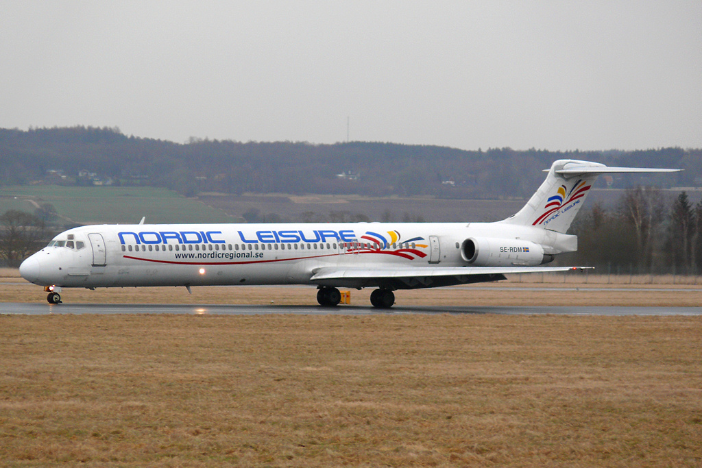 SE-RDM of the Swedish Airline Nordic Airways.